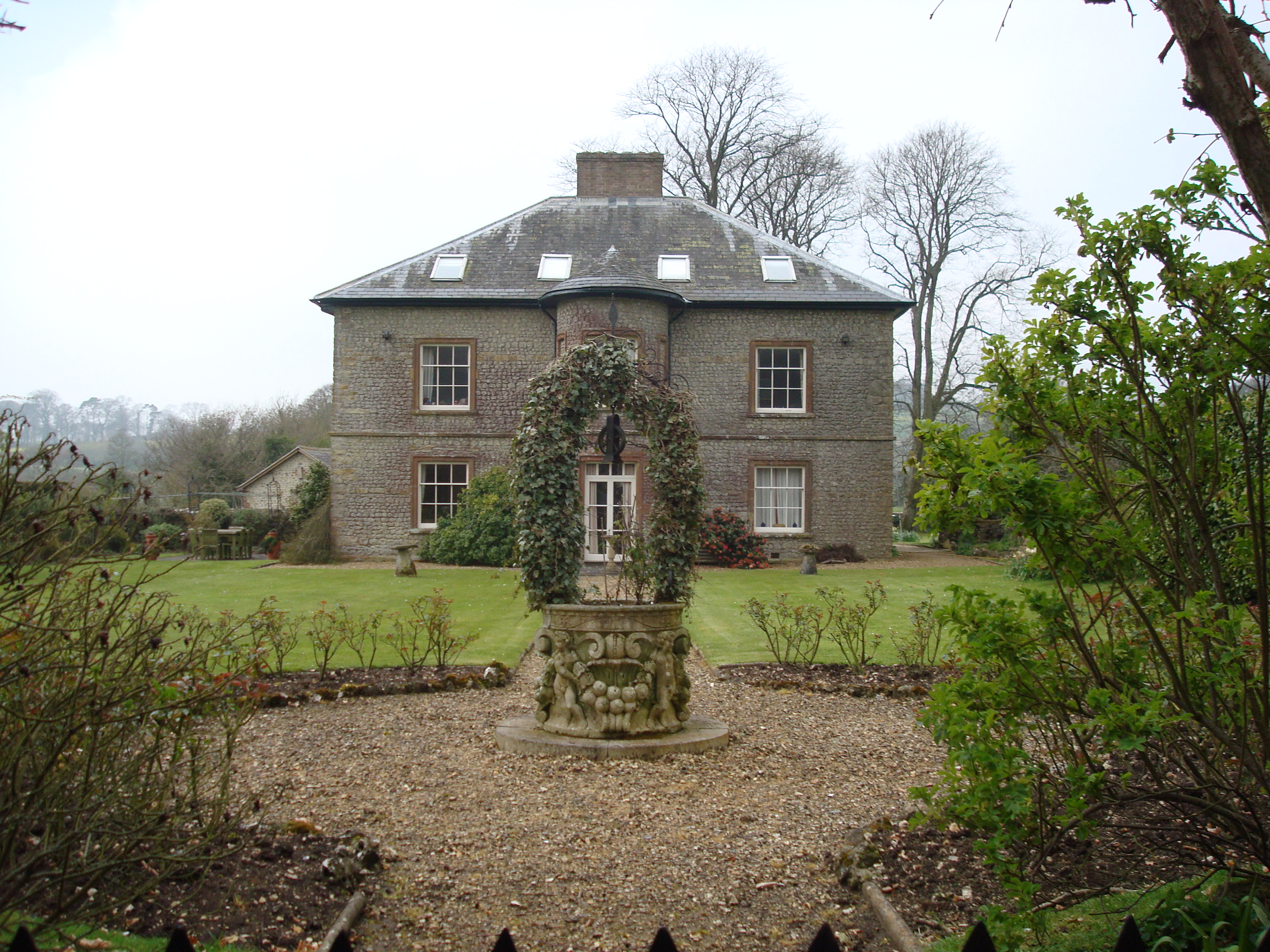 S Knights, my photo, April 2008